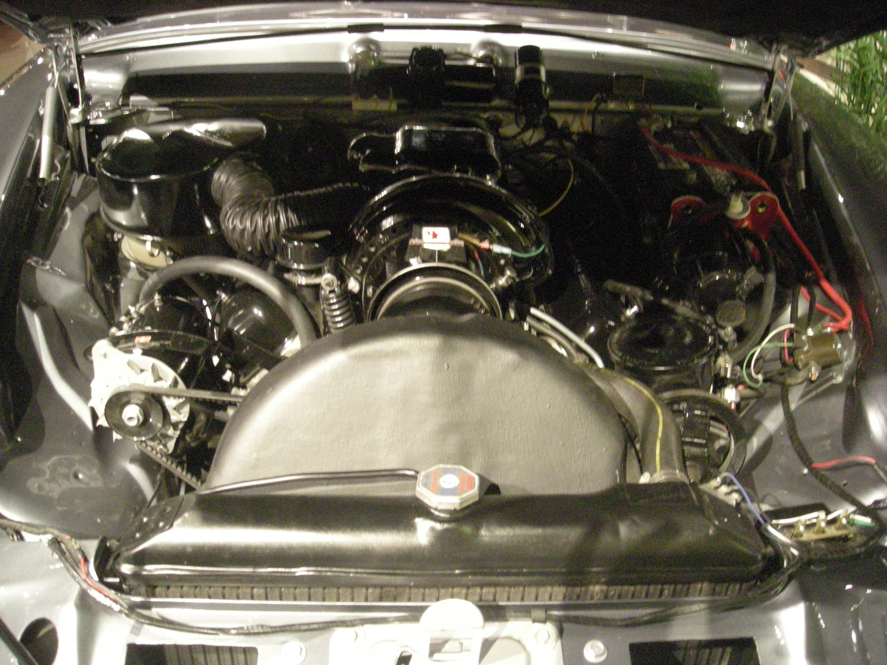 A 1958 Packard Hawk engine at the Studebaker National Museum in South Bend, Indiana (United States).